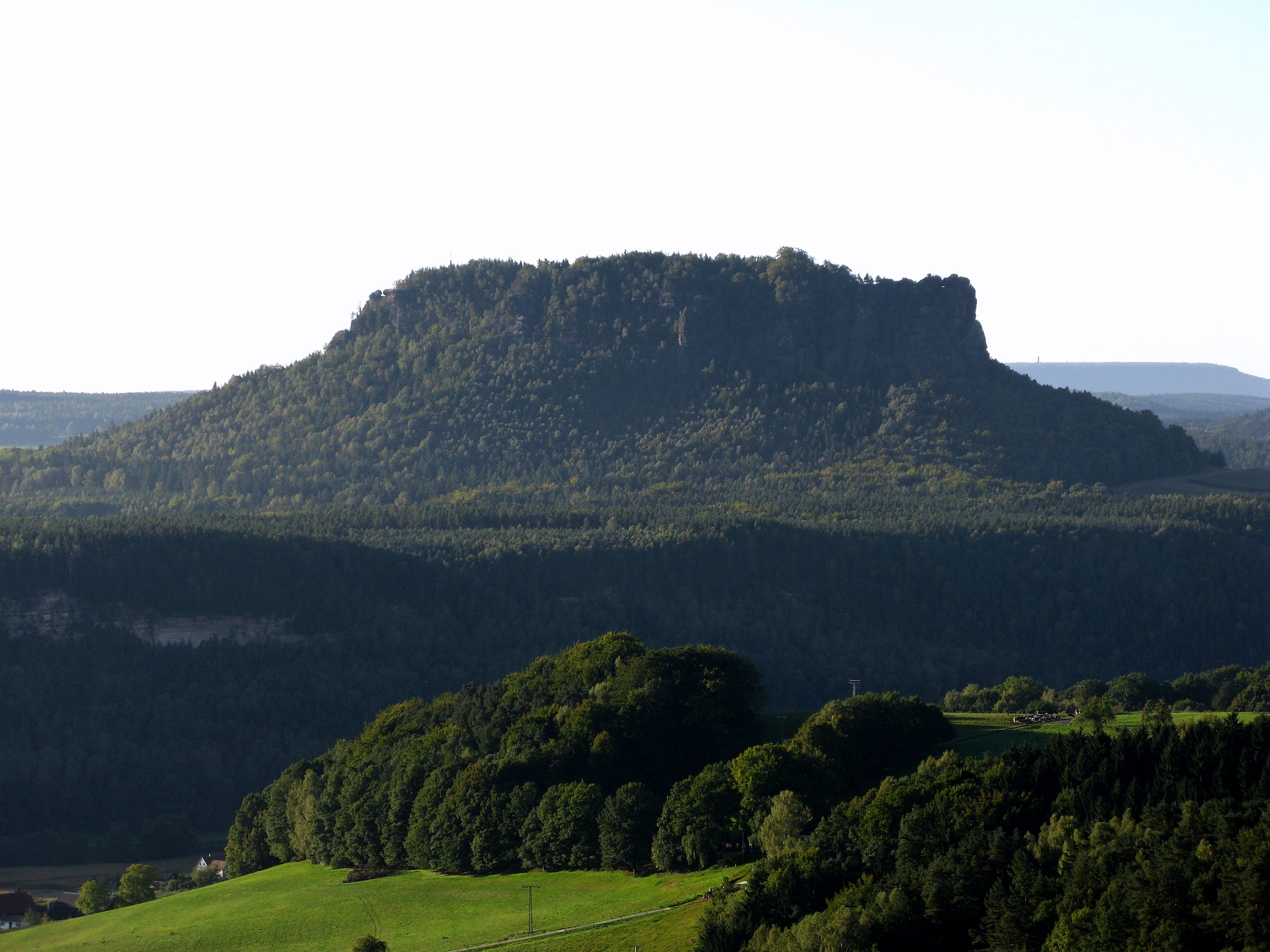 Lilienstein view from Bastei